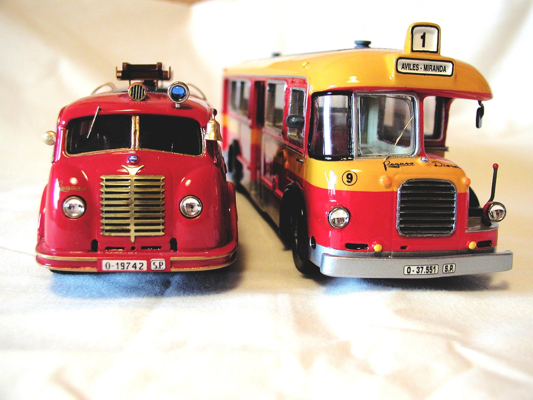 Pegaso bus and truck that still operates in Aviles. Asturias